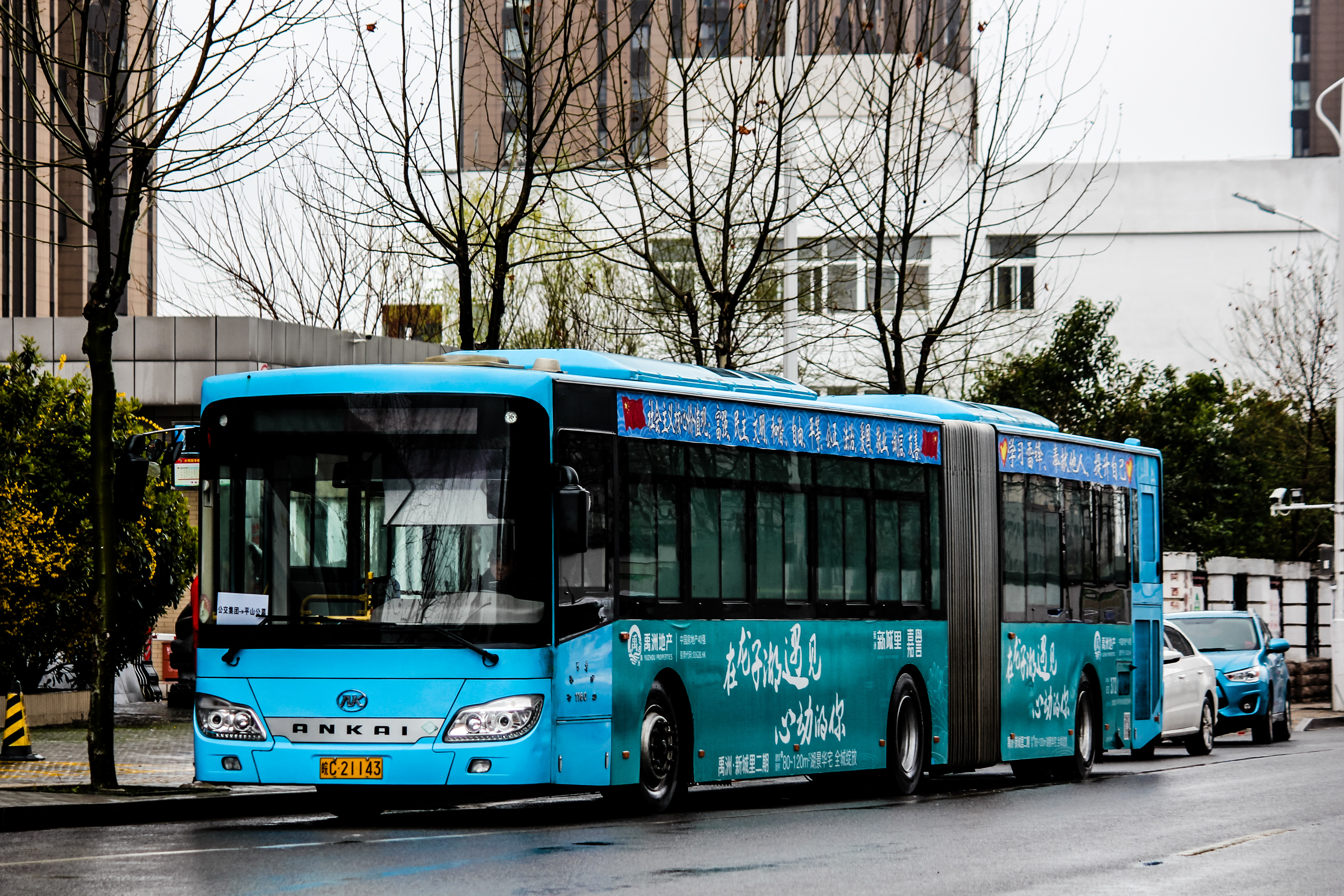 Bengbu Bus Sacrifice Free Special Line.